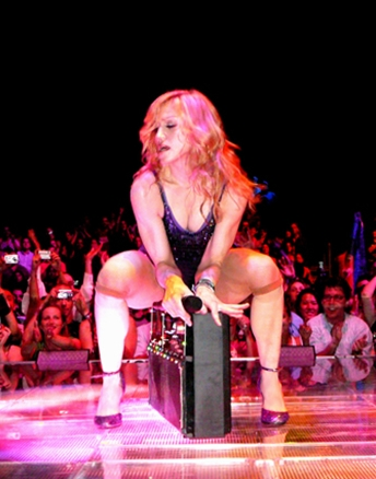 this photo of Madonna with her boombox during the 'Hung Up' performance at her Confessions Tour showing in Philadelphia. It is entirely my own work.